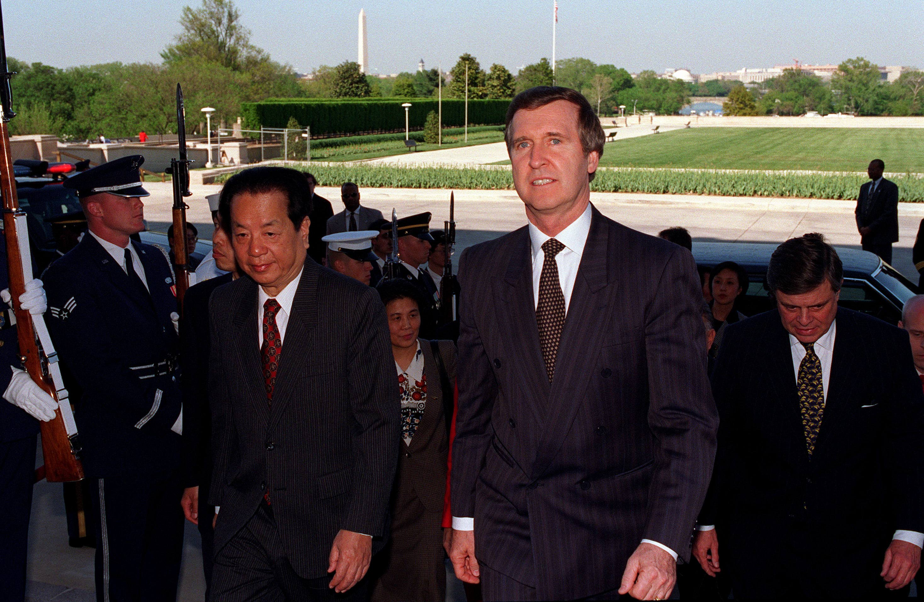 Secretary of Defense William S. Cohen (right) escorts Foreign Minister Qian Qichen (left), of the People's Republic of China, through an honor cordon into the Pentagon.